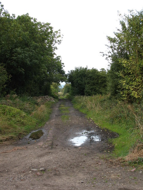 Old railway track at Husthwaite. Trackbed of the railway which once connected Helmsley and Coxwold with the main York to Darlington line at Pilmoor Junction.